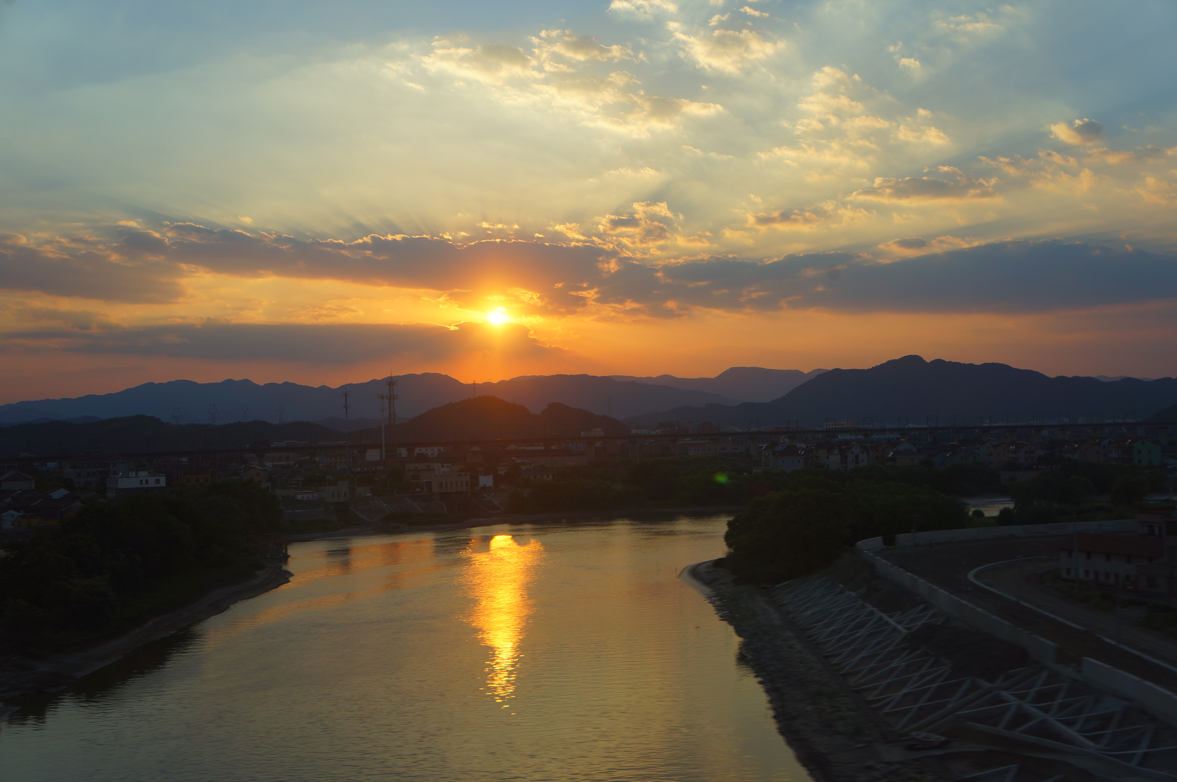 201608 Puyang, Xiaoshan 浦阳